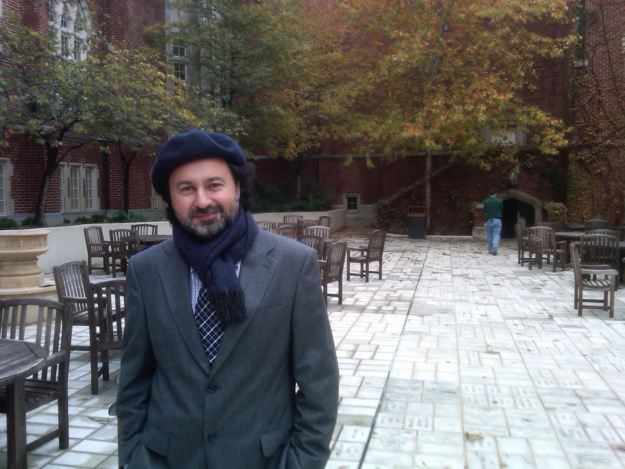 Touraj Daryaee, Iranian faculty of UCLA.